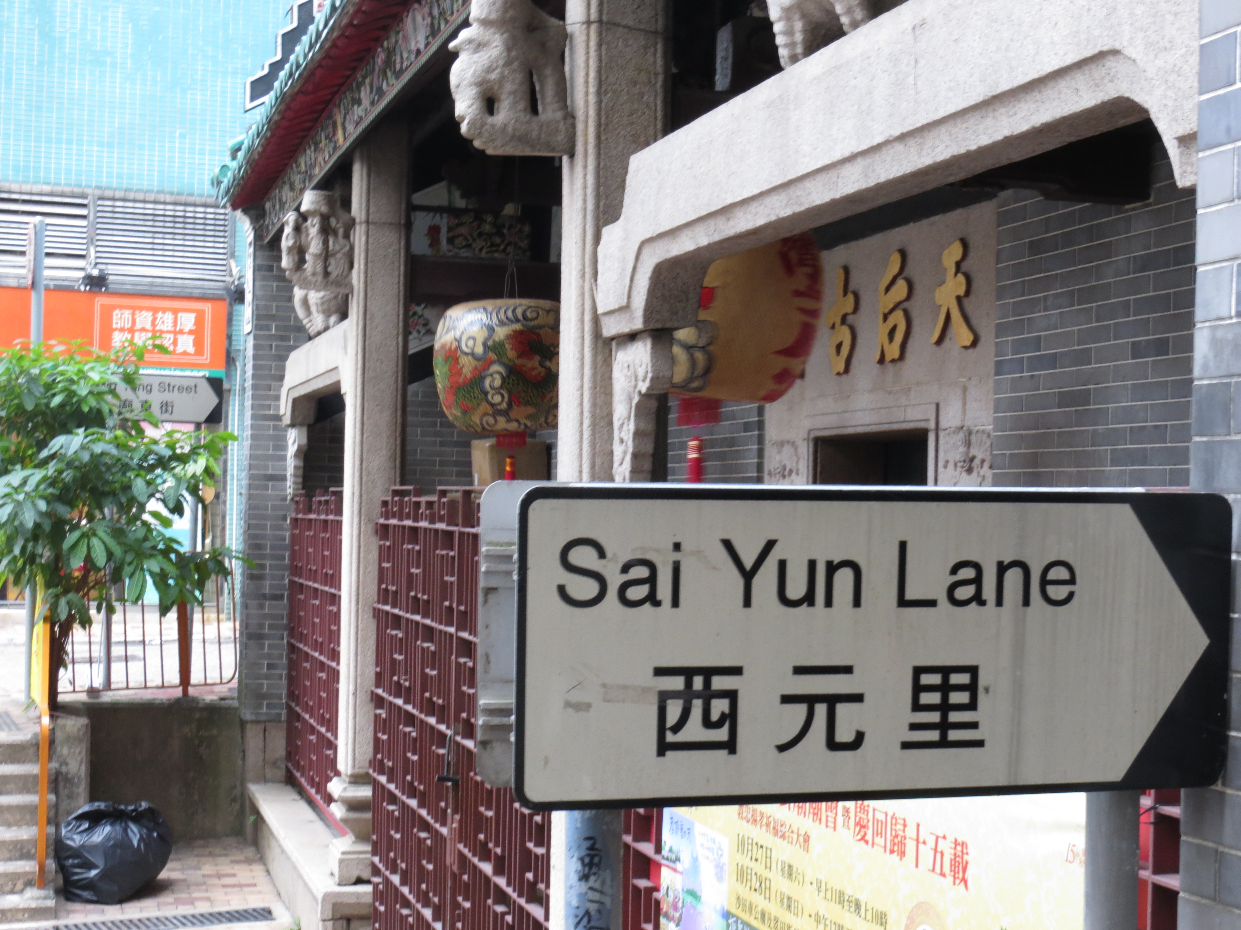 Tin Hau Temple, Shau Kei Wan